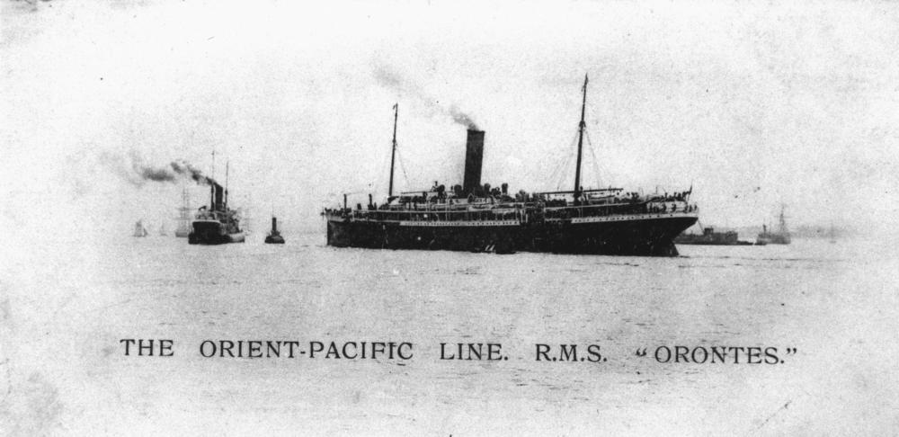 Orient Steam Navigation Co liner Orontes